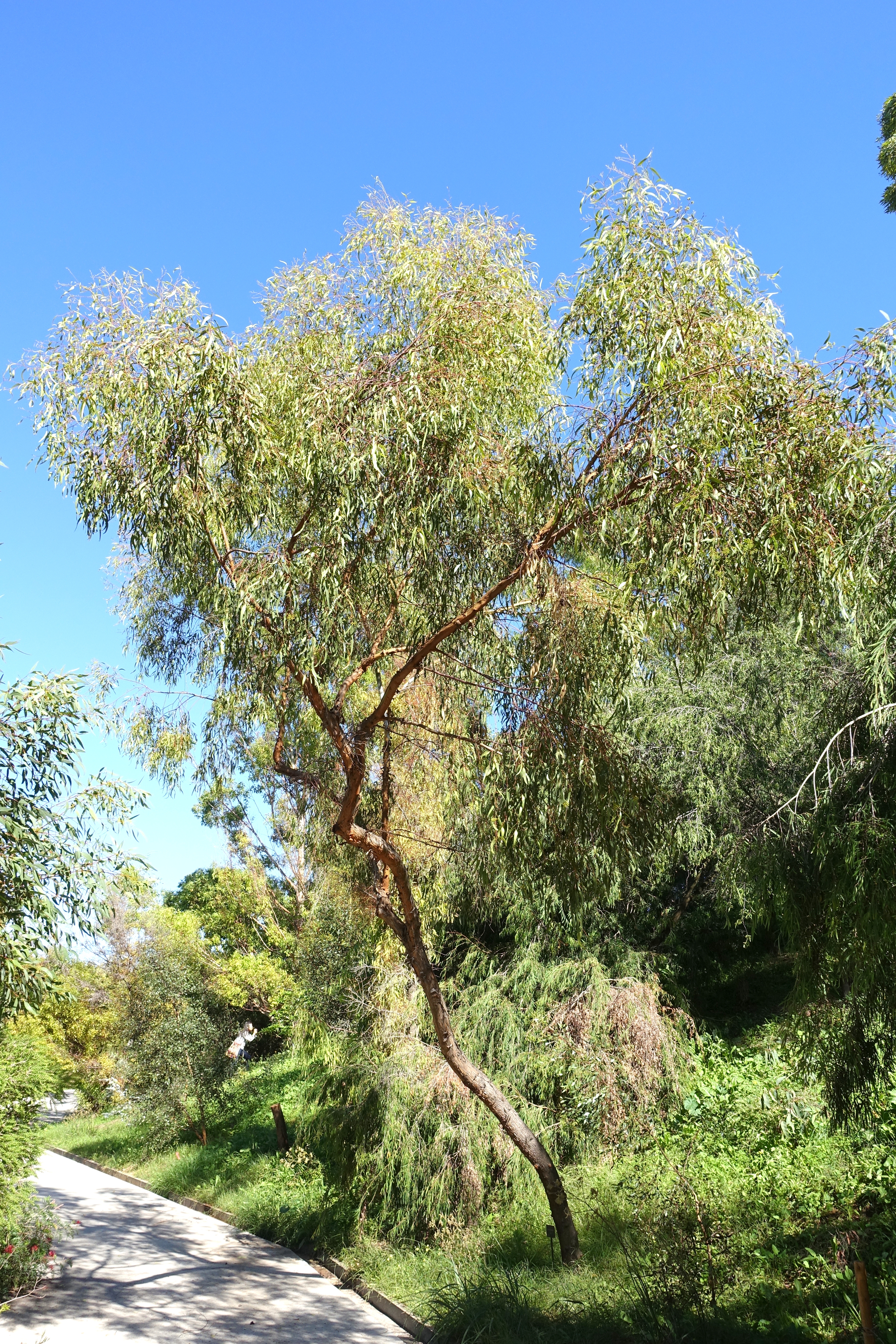 Botanical specimen in the Jardín Botánico de Barcelona - Barcelona, Spain.